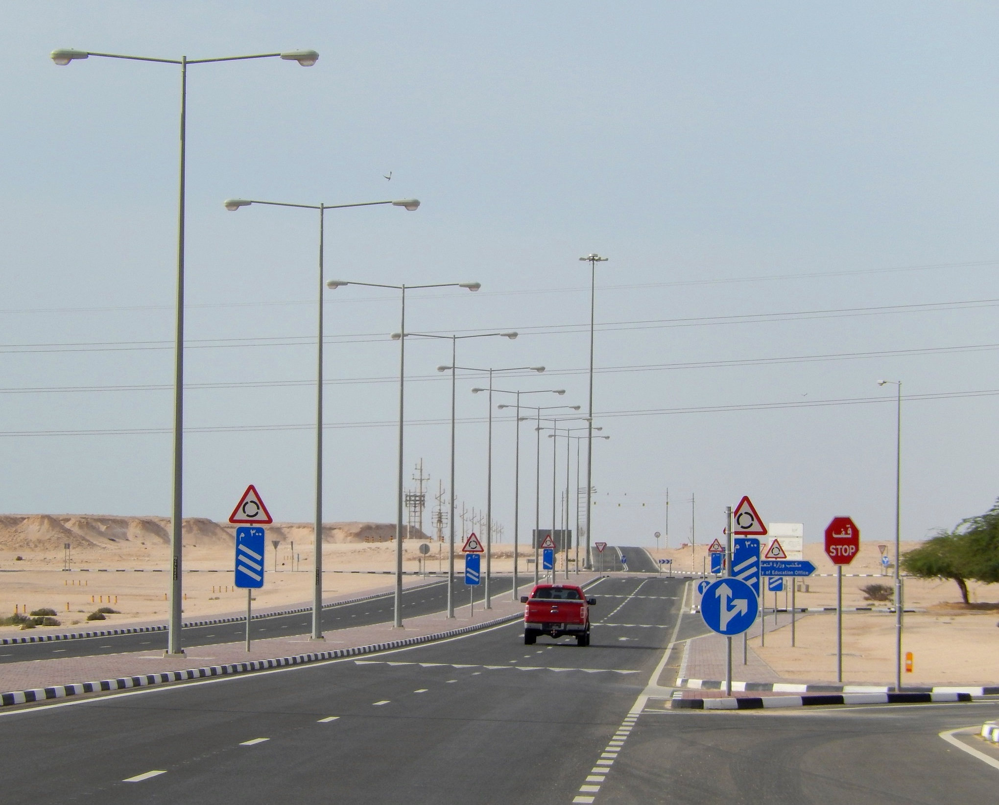 Road to Zekreet, about 4,7 km before entering the village (municipality of Al Rayyan, western Qatar).